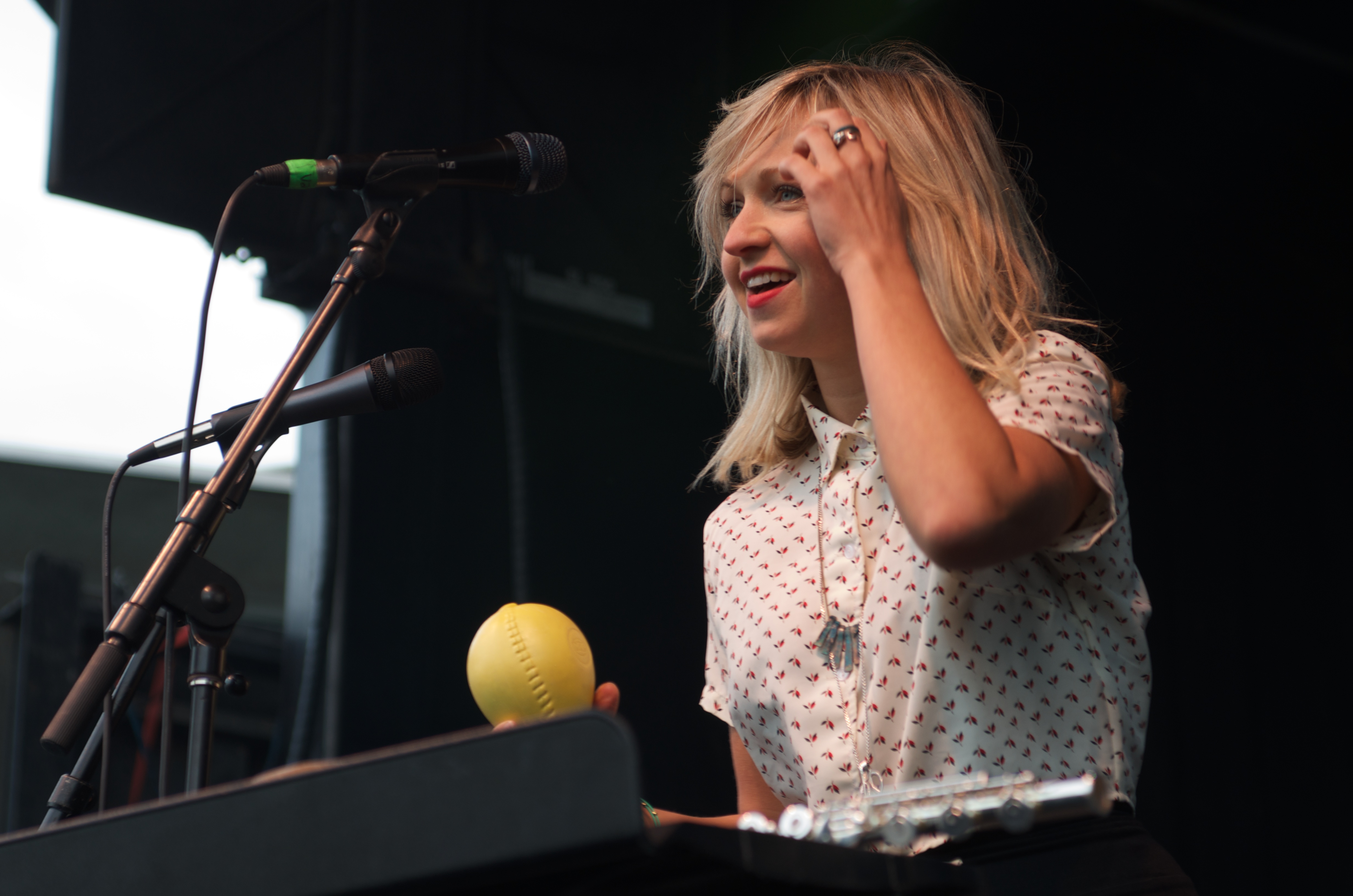 Ashleigh Ball performing with Hey Ocean.